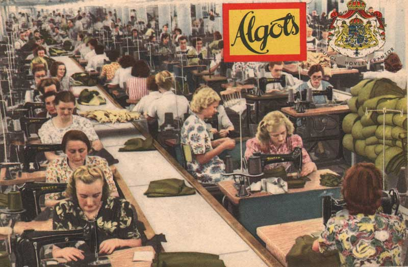 Workers in garment factory, Borås, Sweden